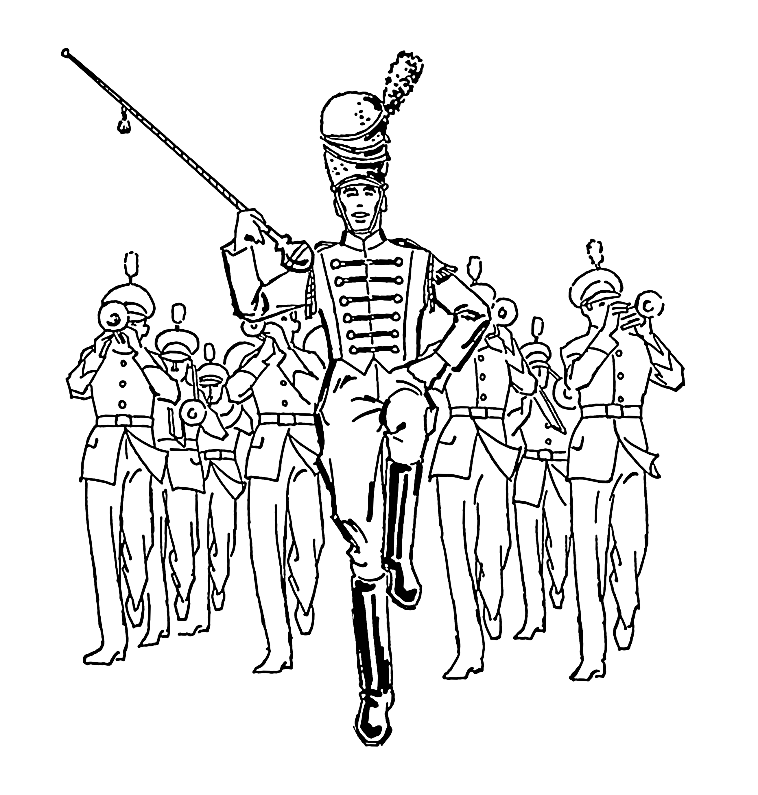 Line art drawing of a drum major.